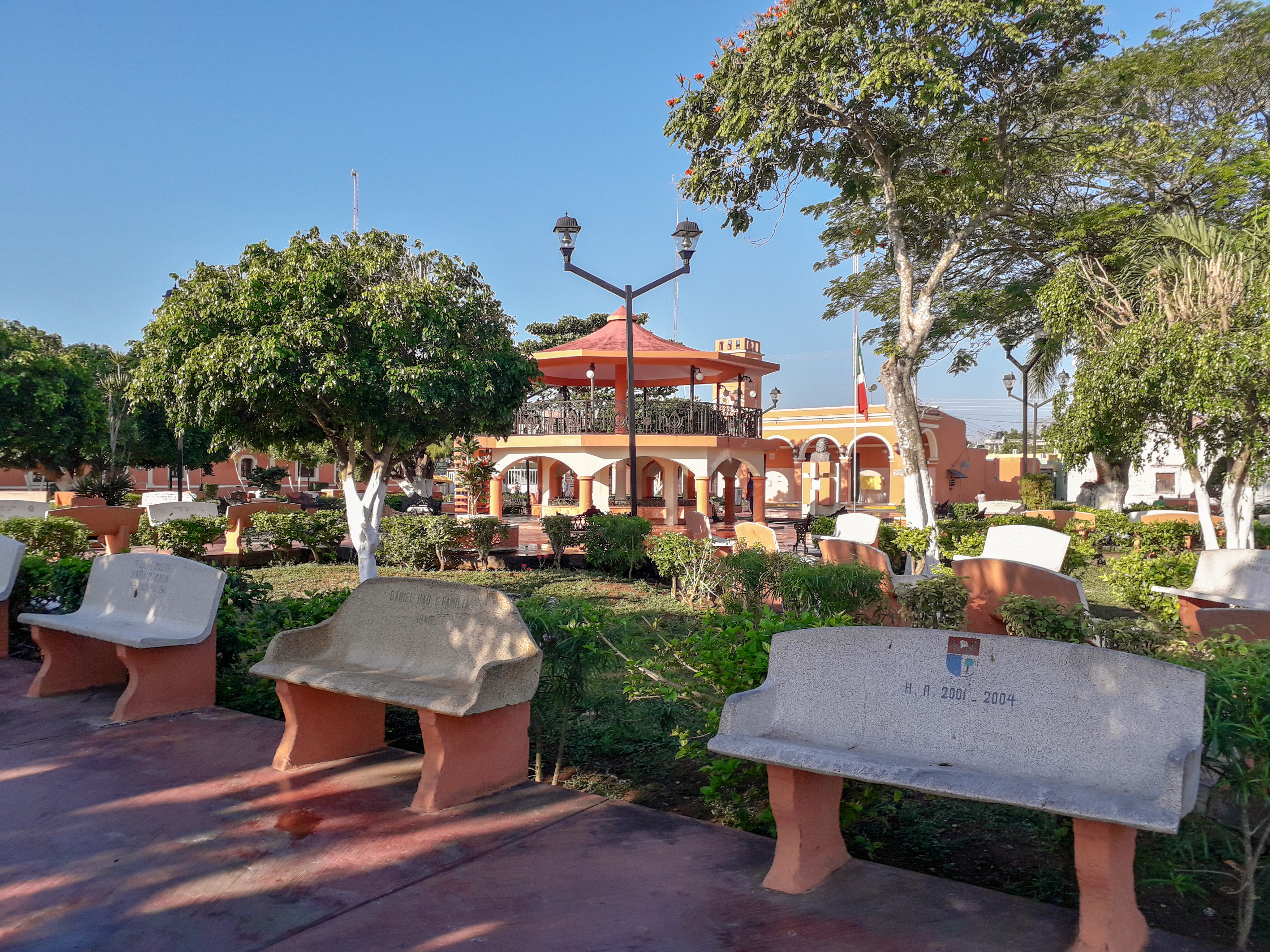 Central park in Panaba, Yucatan.